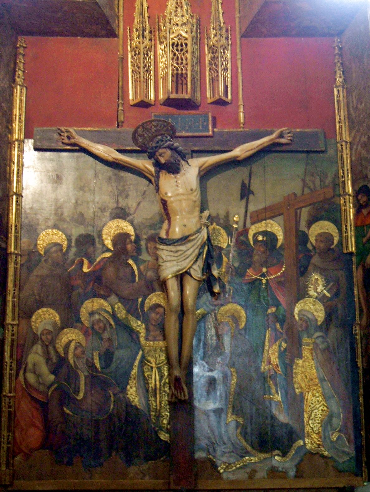 Calvario en la Iglesia de San Pedro Apóstol (Alagón)